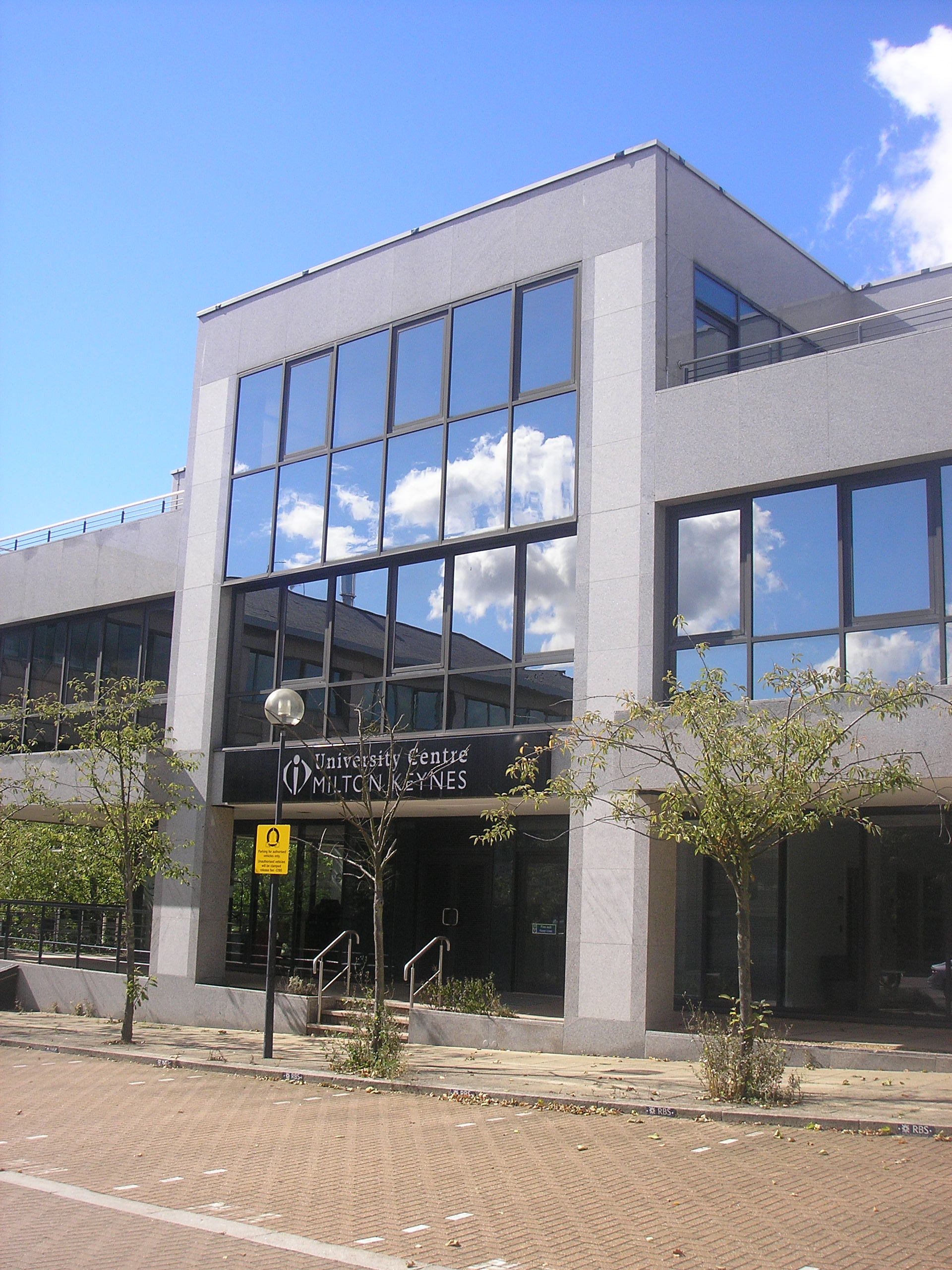 A view of the University Centre Milton Keynes, soon to become the University of Milton Keynes.